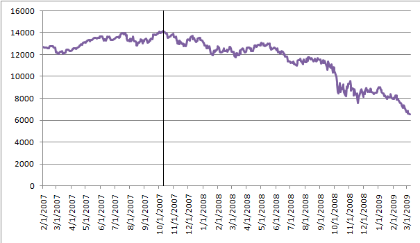 Bear market 2007-2009. The DJIA peaked on October 9, 2007 with a closing price of 14,164.53. On October 11, 2007, the DJIA hit an intra-day peak of 14,198.10 before starting its decline.